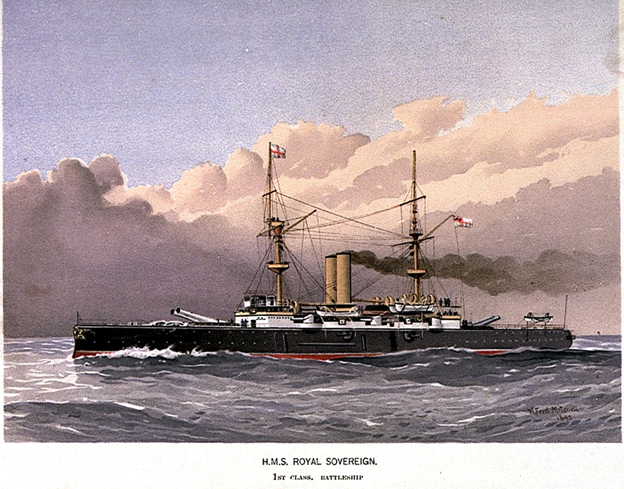 HMS Royal Sovereign First Class Battleship Print